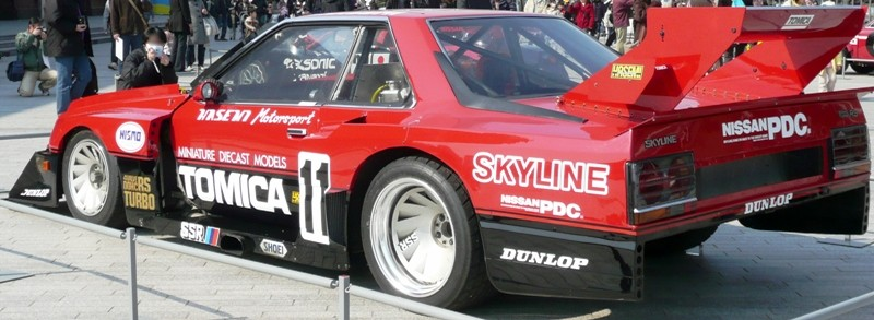 Tomica Skyline rear.